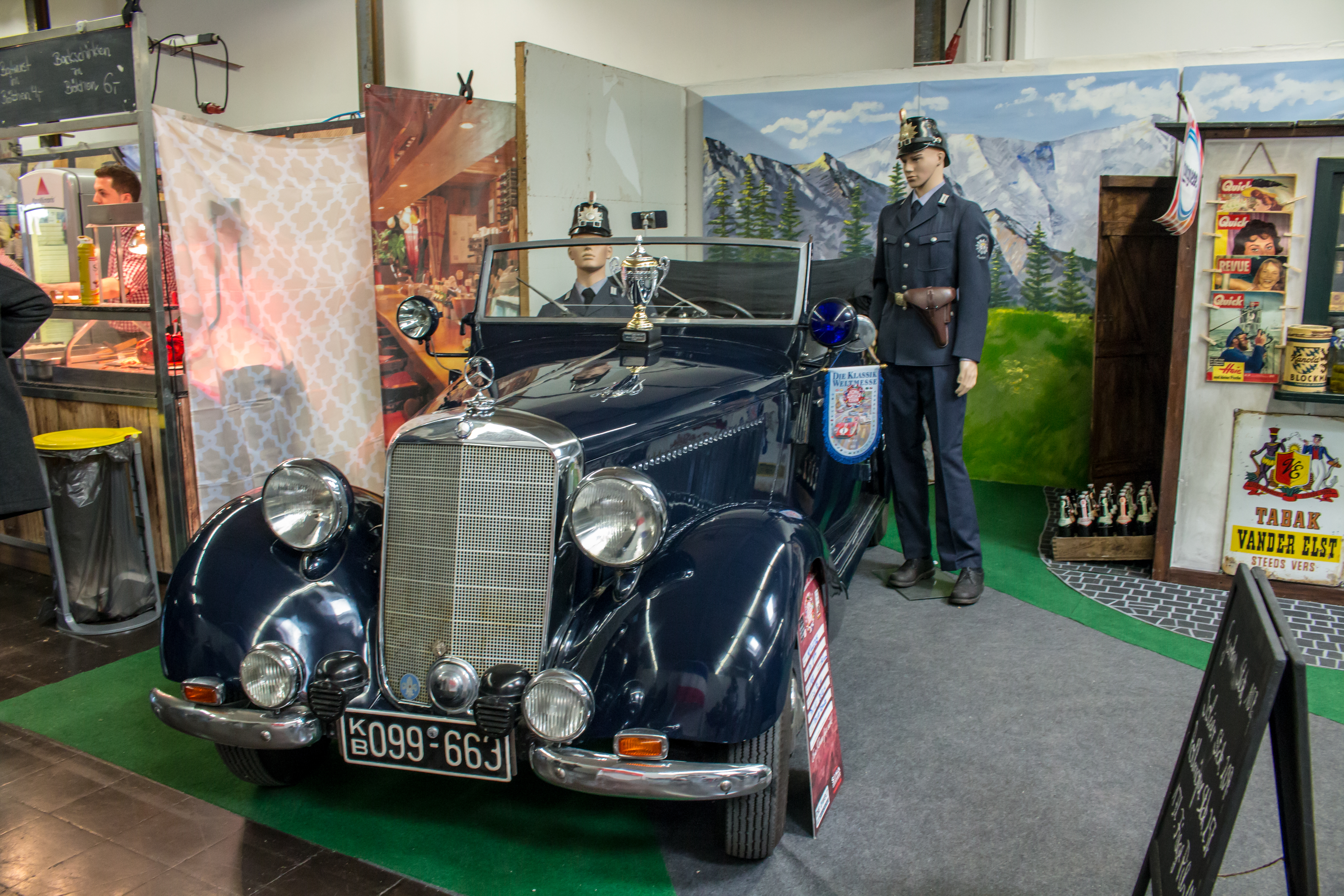 Mercedes-Benz, Techno-Classica 2018, Essen